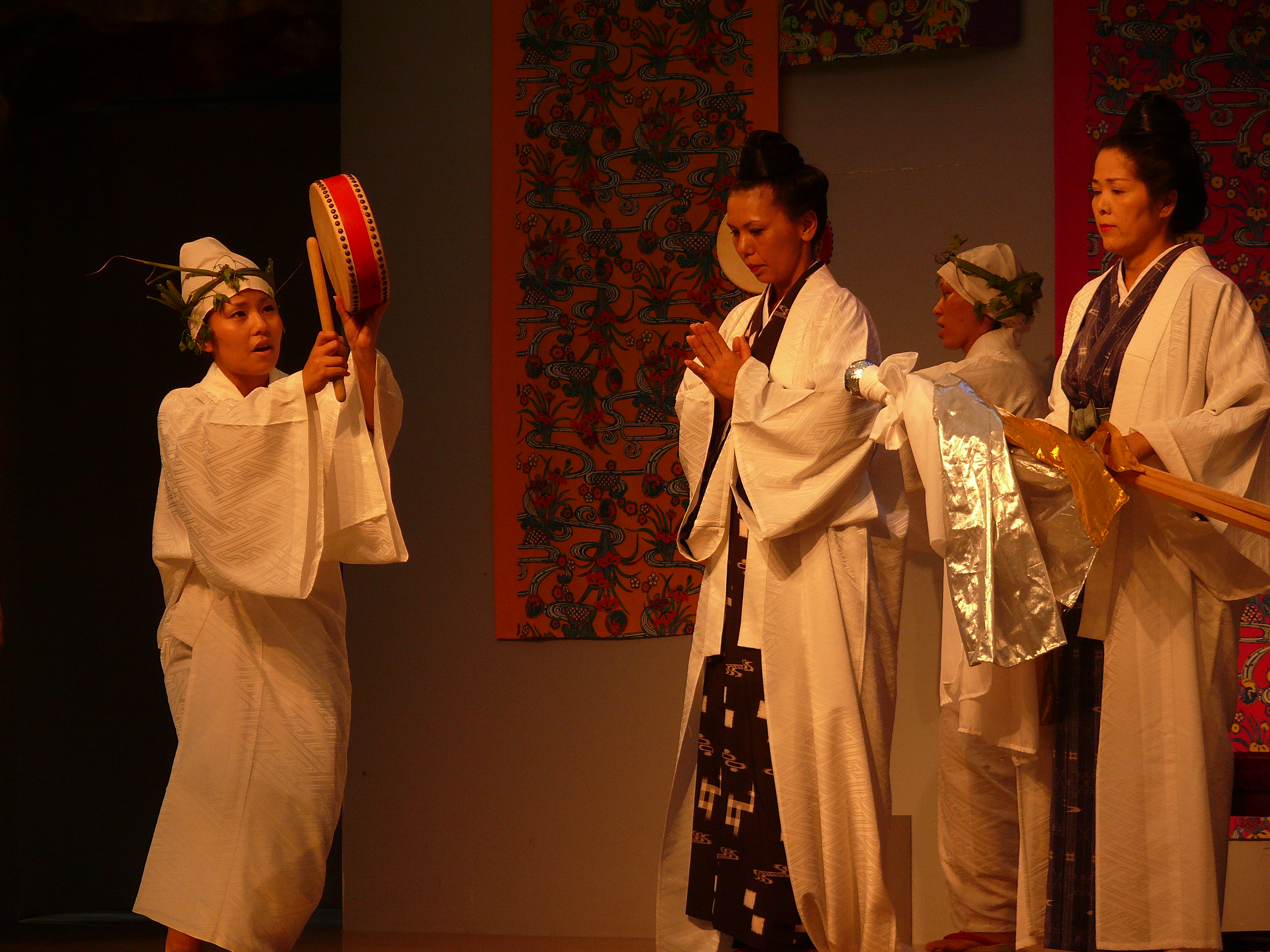 okinawa costumes